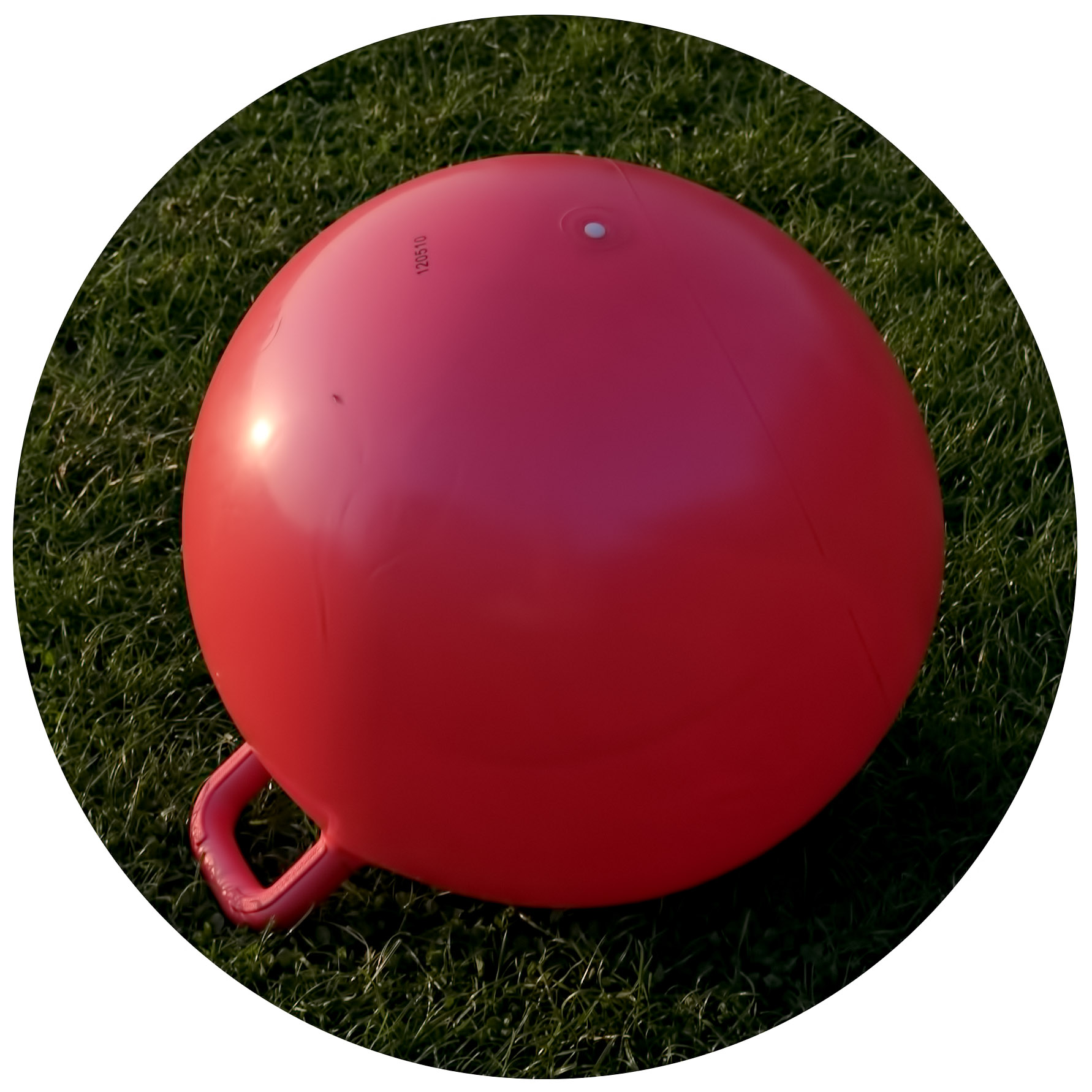 Space Hopper 120510 on the grass.